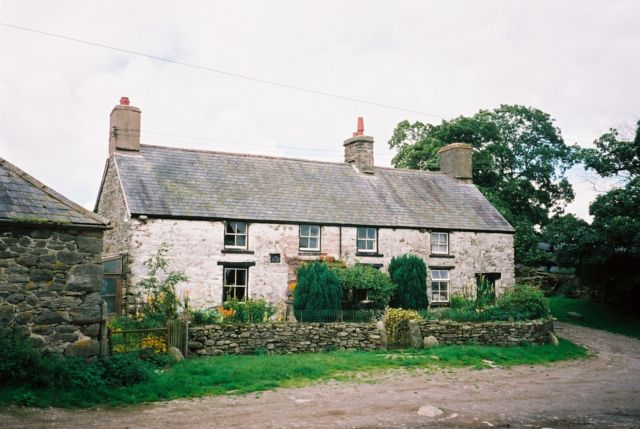 Cwm-main Farmhouse. This interesting old Farmhouse in Cwm Penanner looks barely touched by the 20 / 21 Century, apart from one modern window and electric cables bringing essential power. It bears a stone with the date 1766 and the letters W R M above.